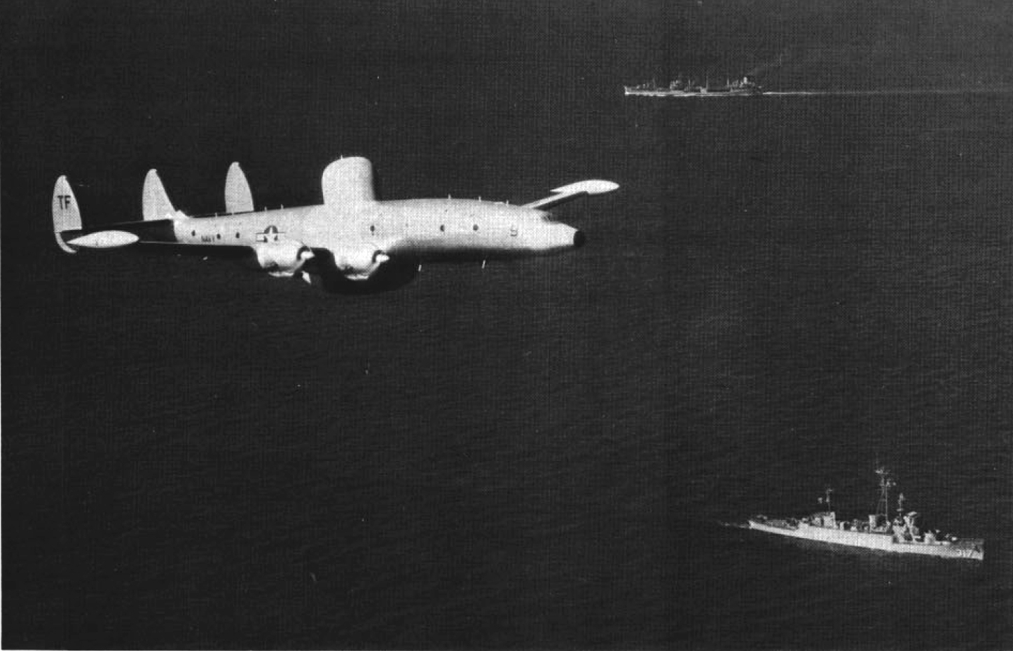 A U.S. Navy Lockheed VW-2 flies over the radar-picket destroyer esccort USS Joyce (DER-317), in the 1950s.